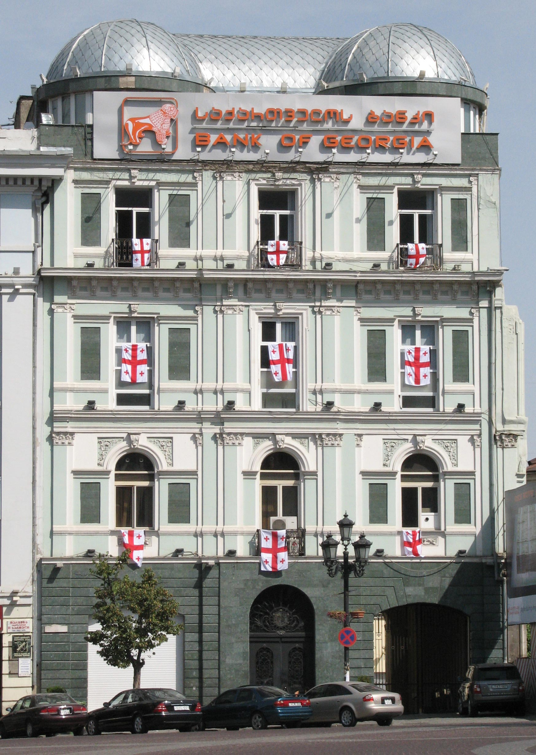 Former head office of Bank of Georgia at the Freedom Square in Tbilisi, Georgia.